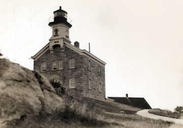 1935 U.S. Coast Guard photo by R. C. Smith of the Great Captain Island Lighthouse in Greenwich, Connecticut Picture found at: Category:Coast Guard images